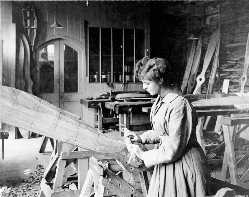 Women at work during the First World War A woman war worker shapes a wooden propeller at the aircraft factory of Frederick Tibbenham Ltd, Ipswich.